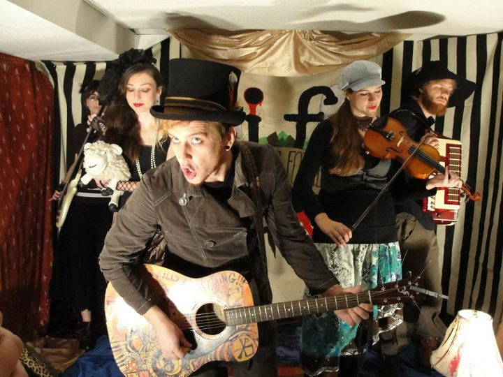 Taken during IF video shoot